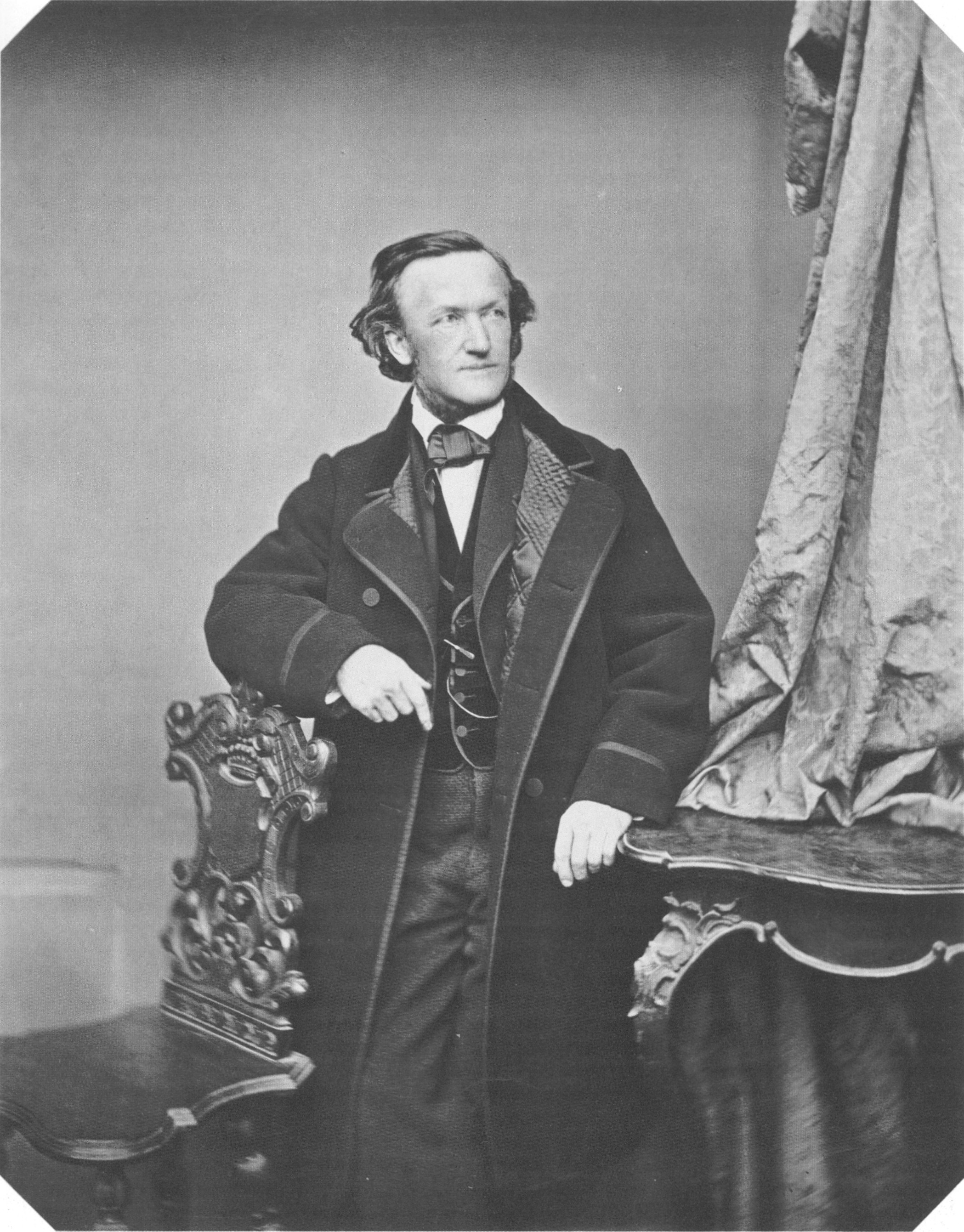 Richard Wagner (1813-1883)